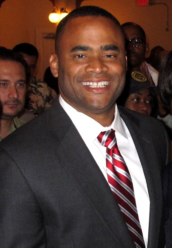 2012-JUL-31; at Marc Veasey's victory celebration after his winning the run-off election for Democratic Party candidate for U.S. Congress, CD33.